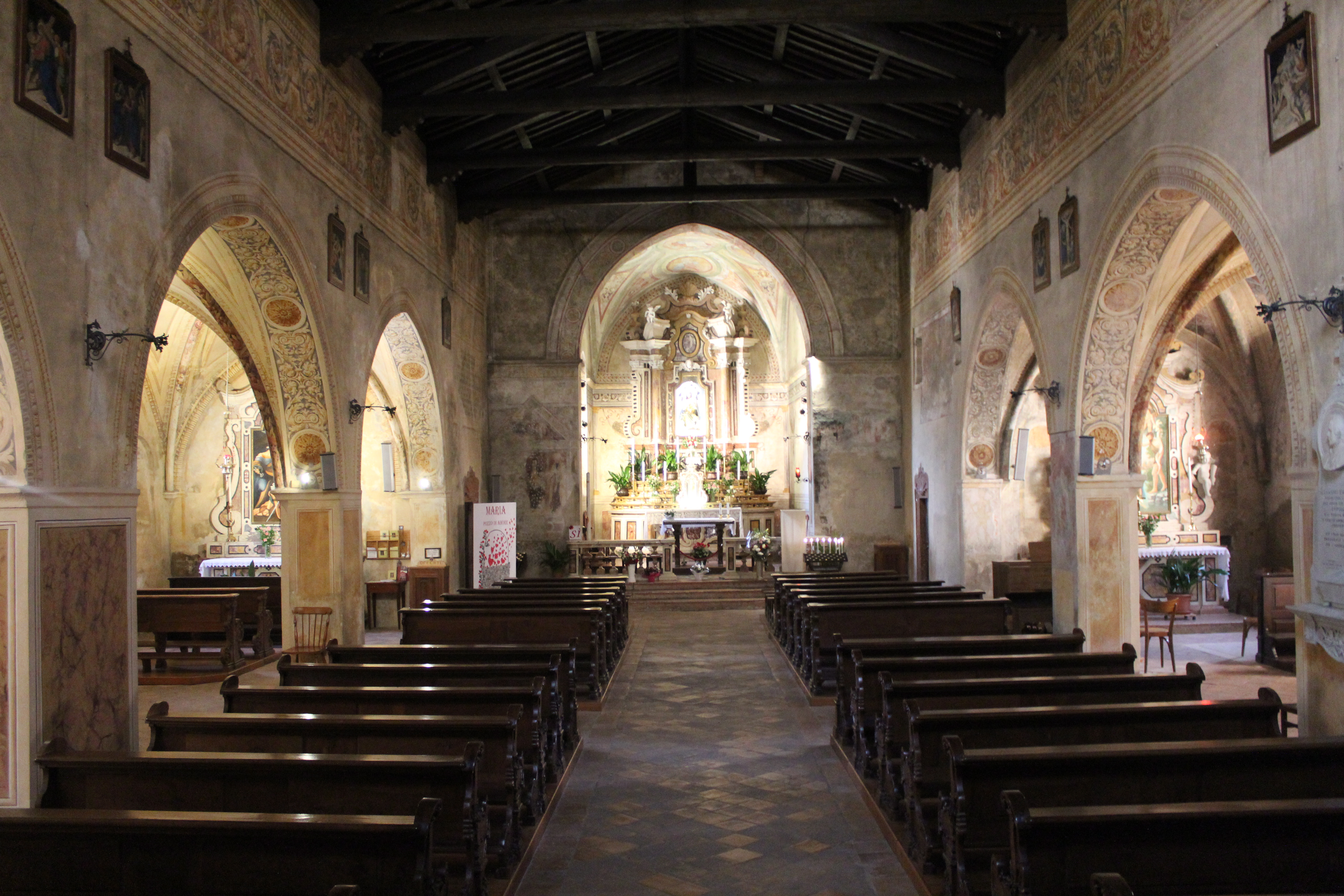 Church of Immacolata in Avio (Trento), interior